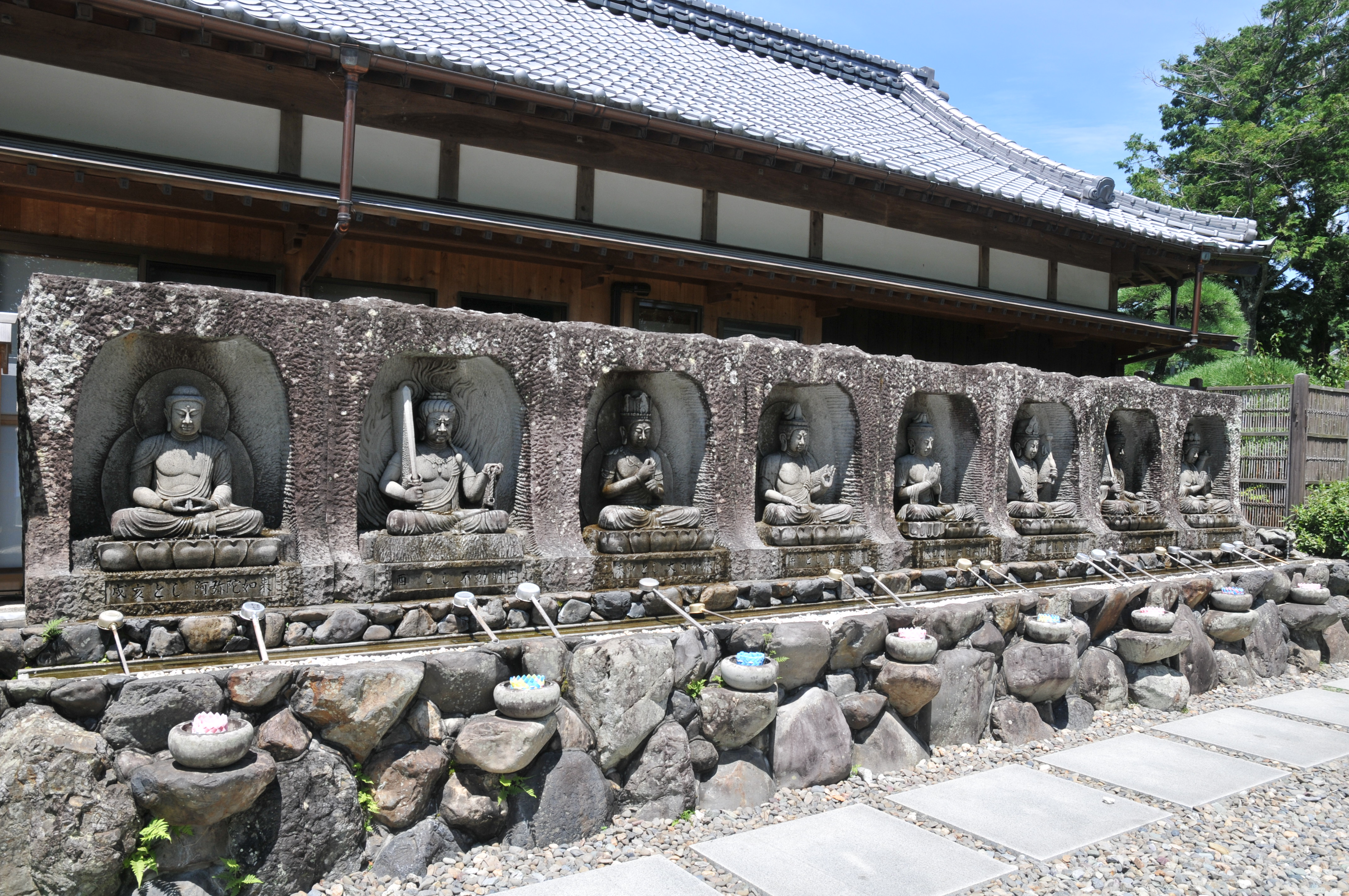 Eight Buddha, Kanjizai-ji